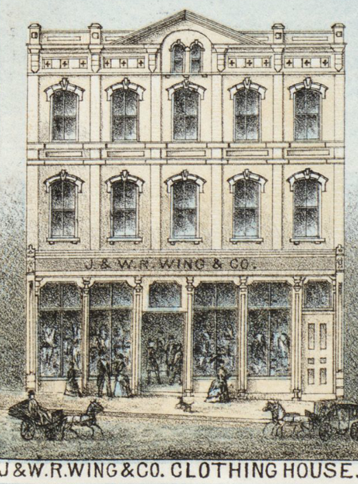 Detail of: View of the City of New Bedford, Mass. Publisher: O.H. Bailey & Co. Date: 1876 Location: New Bedford (Mass.) Dimension 48.0 x 84.0 cm. Scale: Not drawn to scale